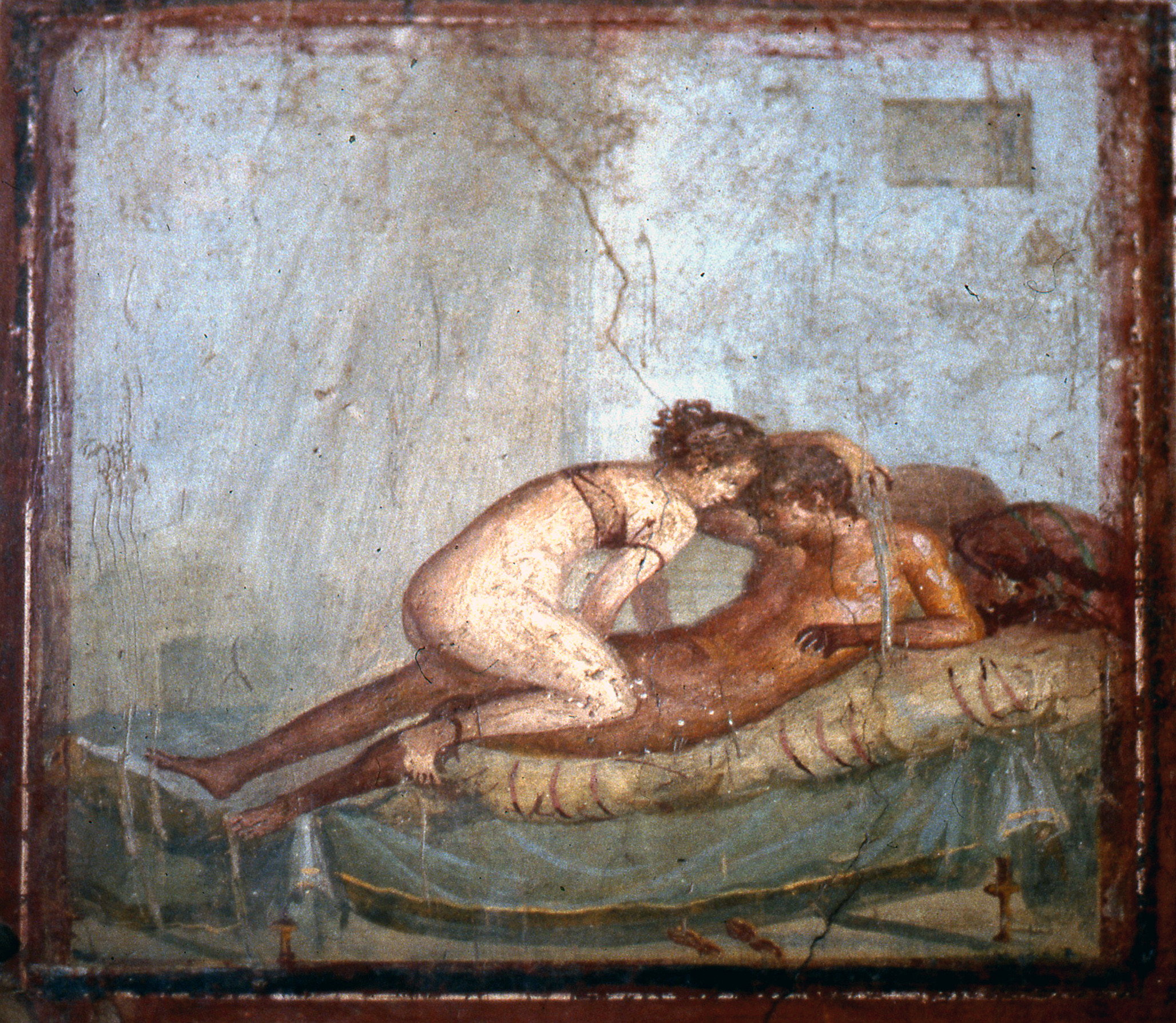 Love act; Roman fresco from the bedroom (Cubiculum) in the Casa del Centenario (IX 8,3) in Pompeii, 1. Century A. C.